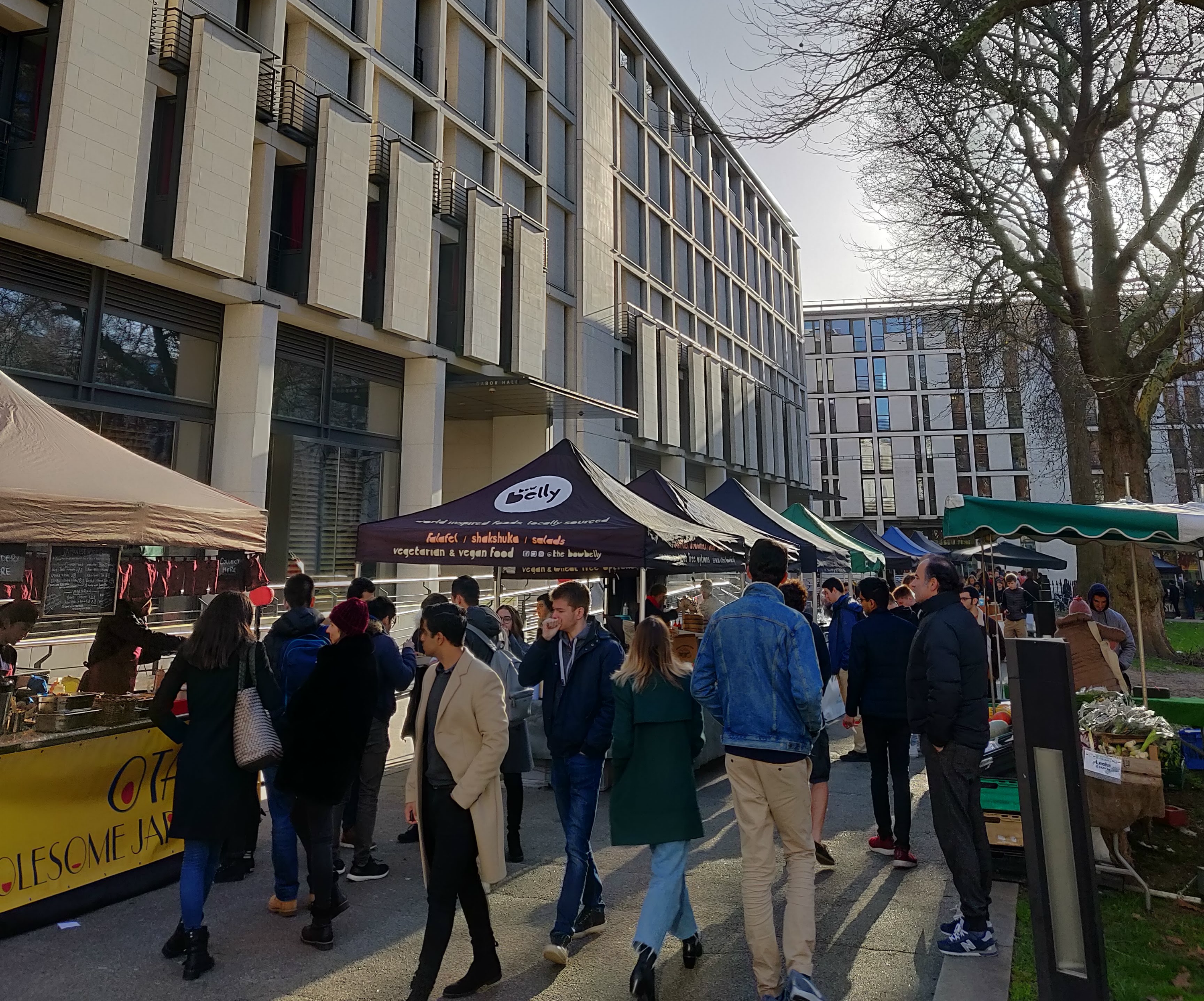 The weekly farmer's market at Imperial College held every Tuesday. This particular time it took place around Prince's Gardens, but it's currently more often at Queen's Lawn